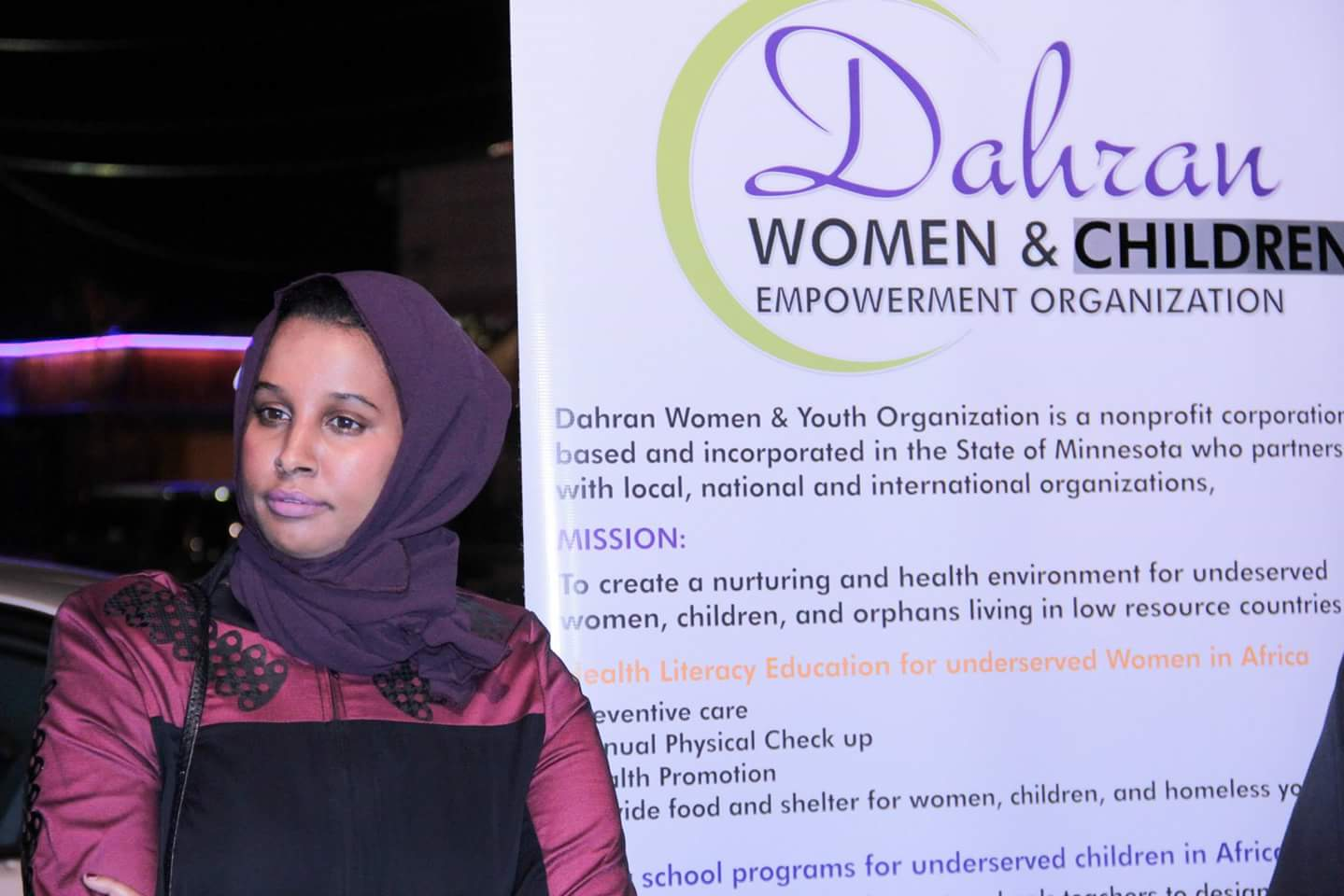 Somali activist and entrepreneur Dahran Muse, founder of the Dahran Women & Youth Organization based and incorporated in Minneapolis, Minnesota.